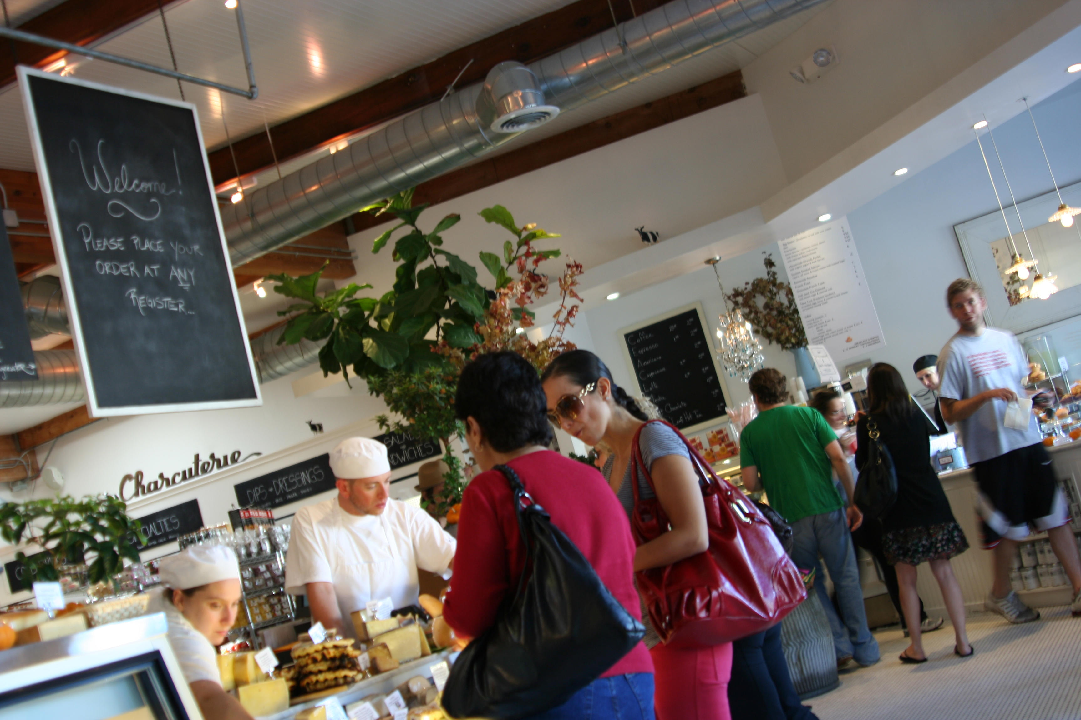 Inside Joan's on Third in Los Angeles, California. Photo by ChildofMidnight, please give me all credit and accolades, but keep your criticisms to yourself.